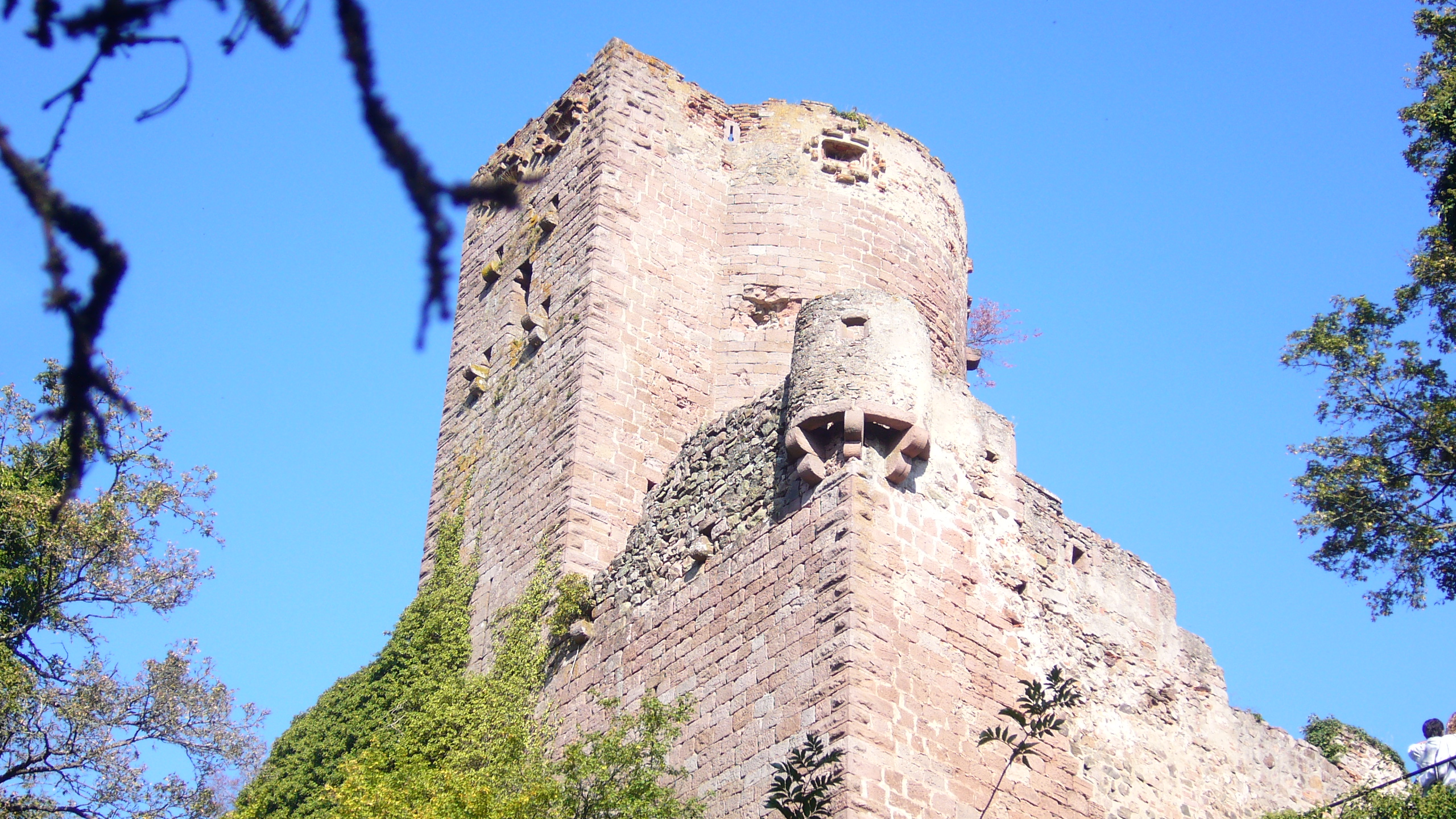 Donjon du château de Kintzheim